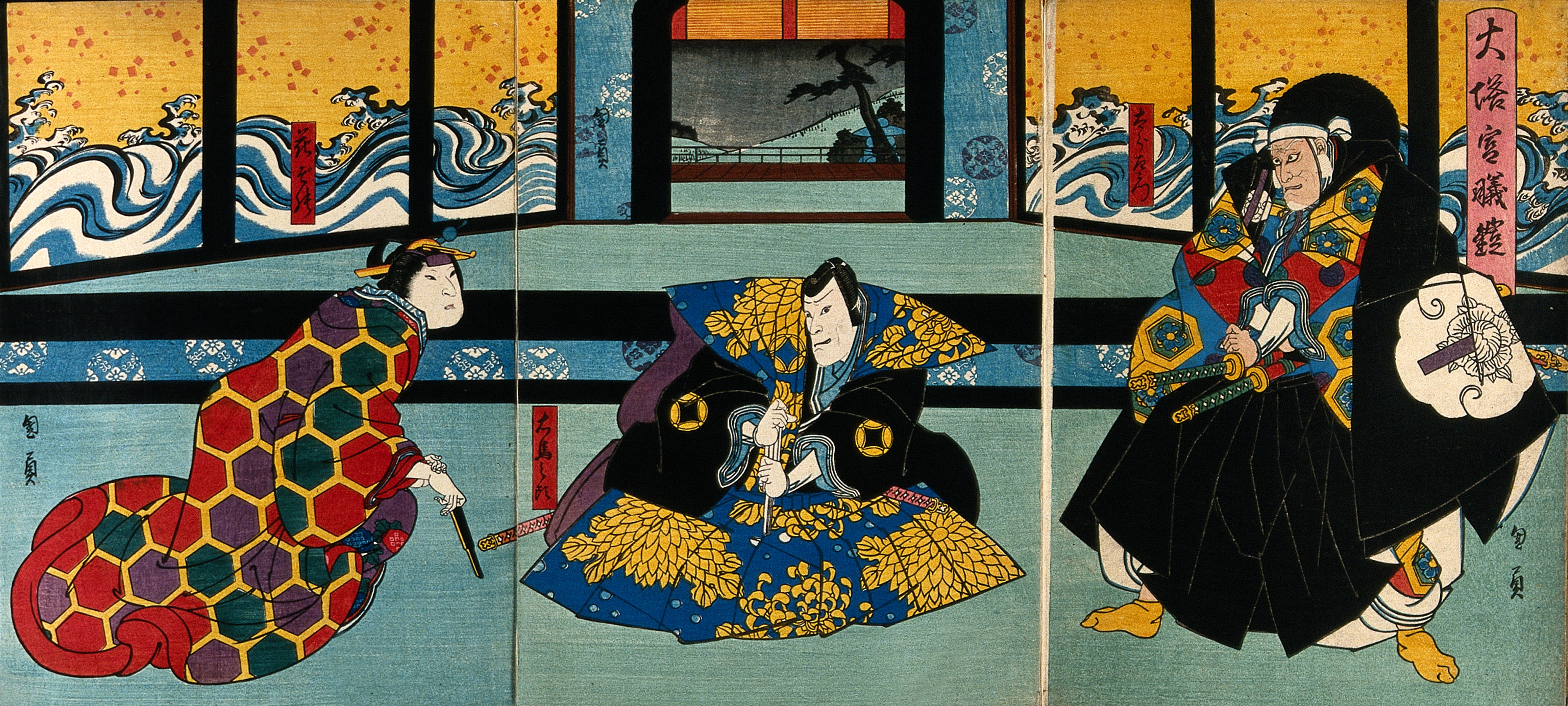 Three figures in a palace. Colour woodcut by Kunikazu, early 1860s. Iconographic Collections Keywords: Kunikazu